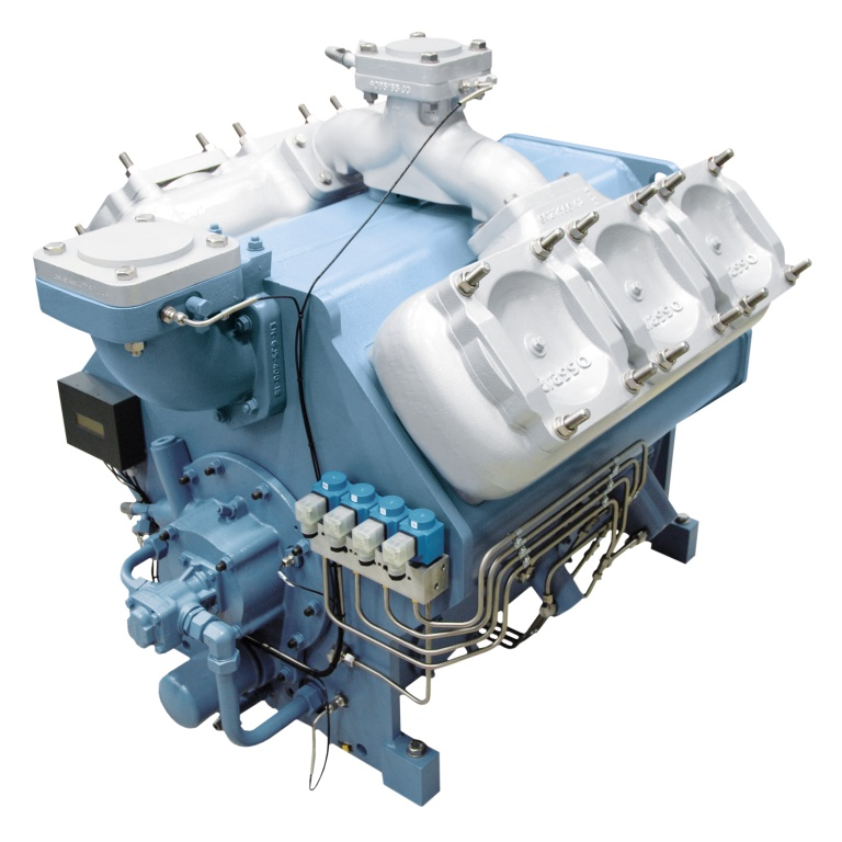 Picture of a Piston Compressor